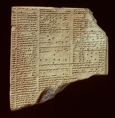 List of astrological omens about the moon. Astrological commentary Sîn ina tāmartīšu. Collection De Liagre Böhl (NINO Leiden (The Netherlands Institute for the Near East))